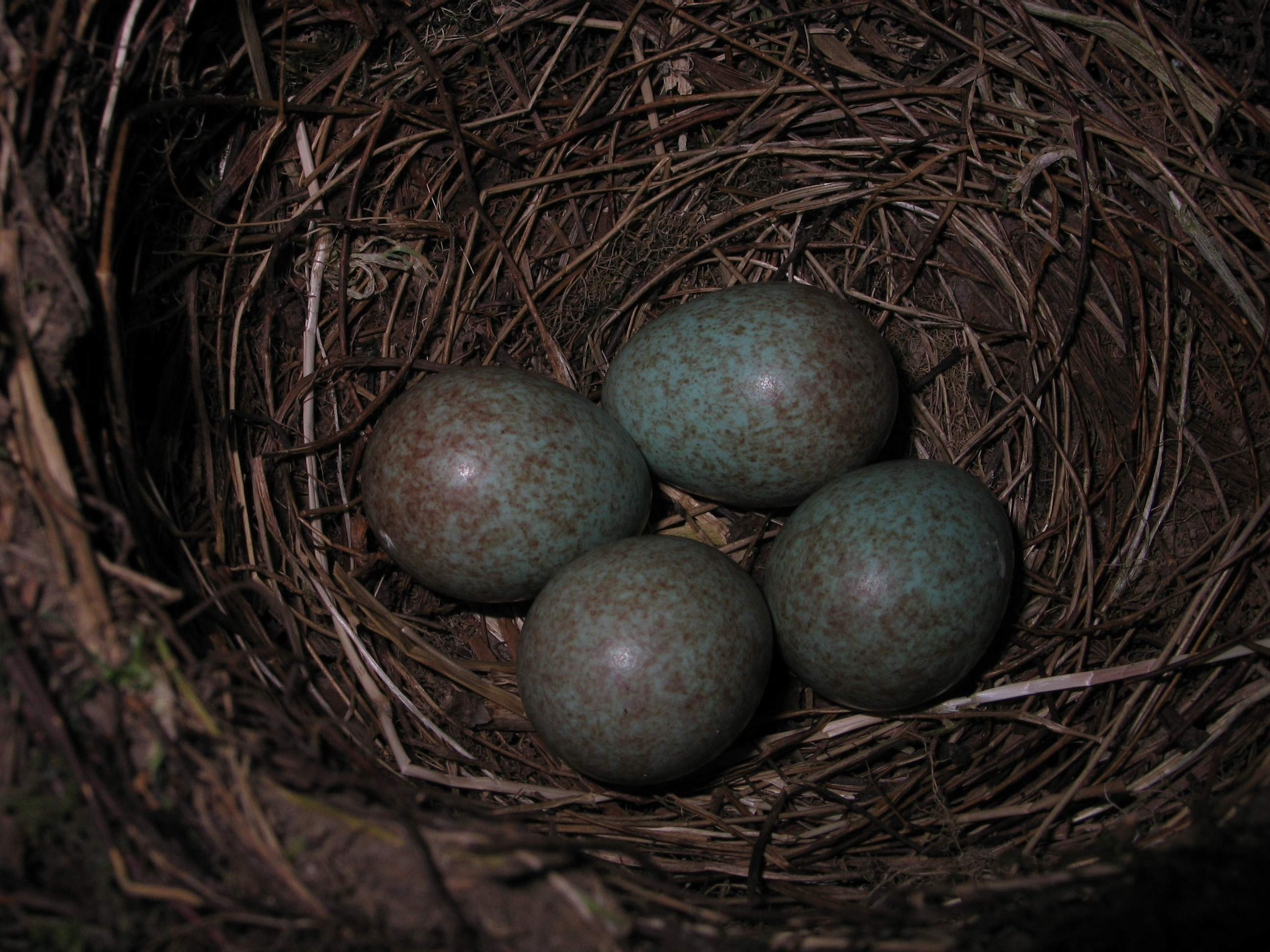 A photo of a nest with eggs from a blackbird (Turdus merula).